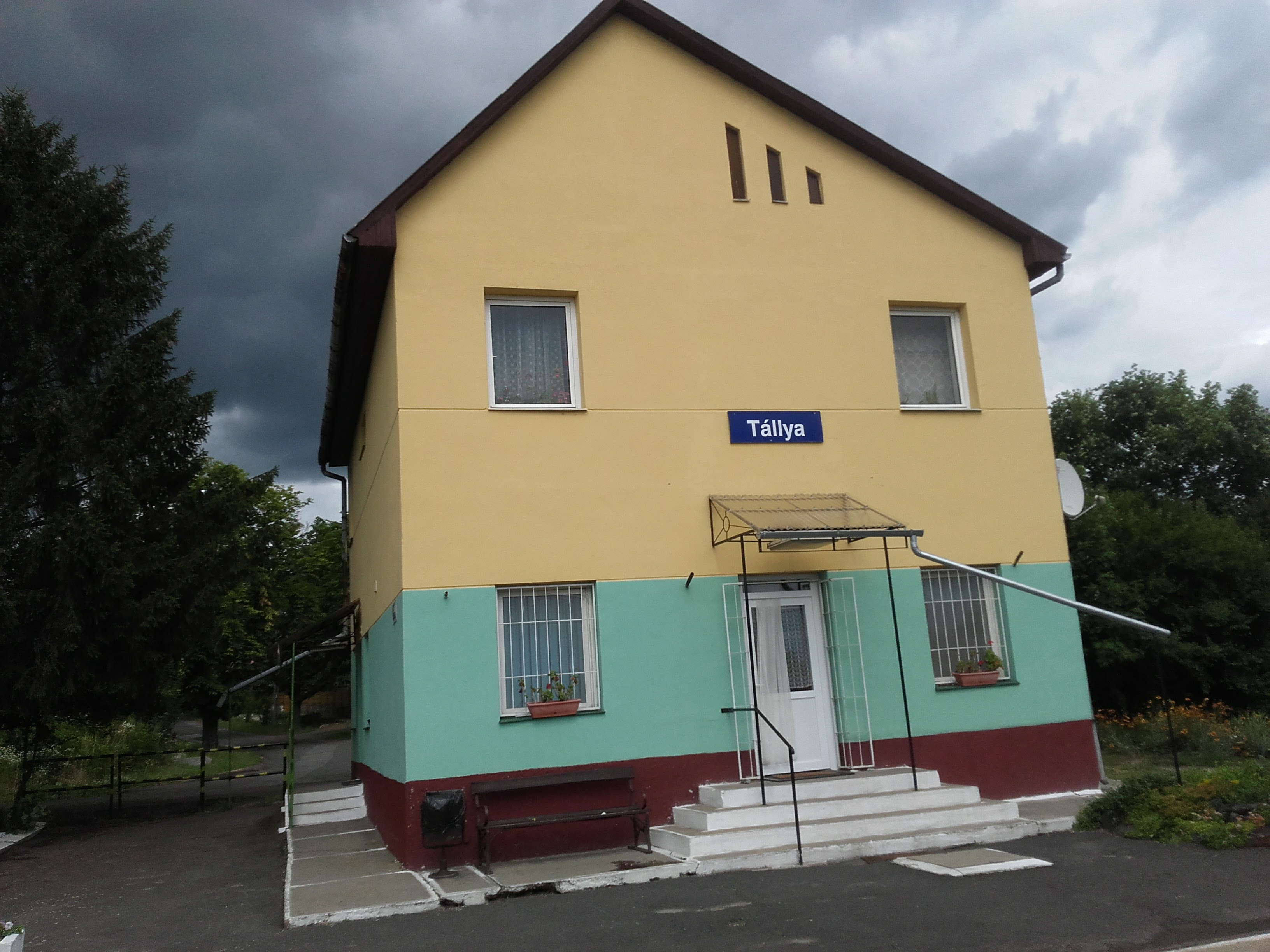 Train station in Tállya, Hungary, on a route from Szerencs.